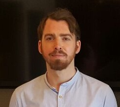 Jason Brooke in Kuching in 2016, at a meeting with Bung Bratak community leaders